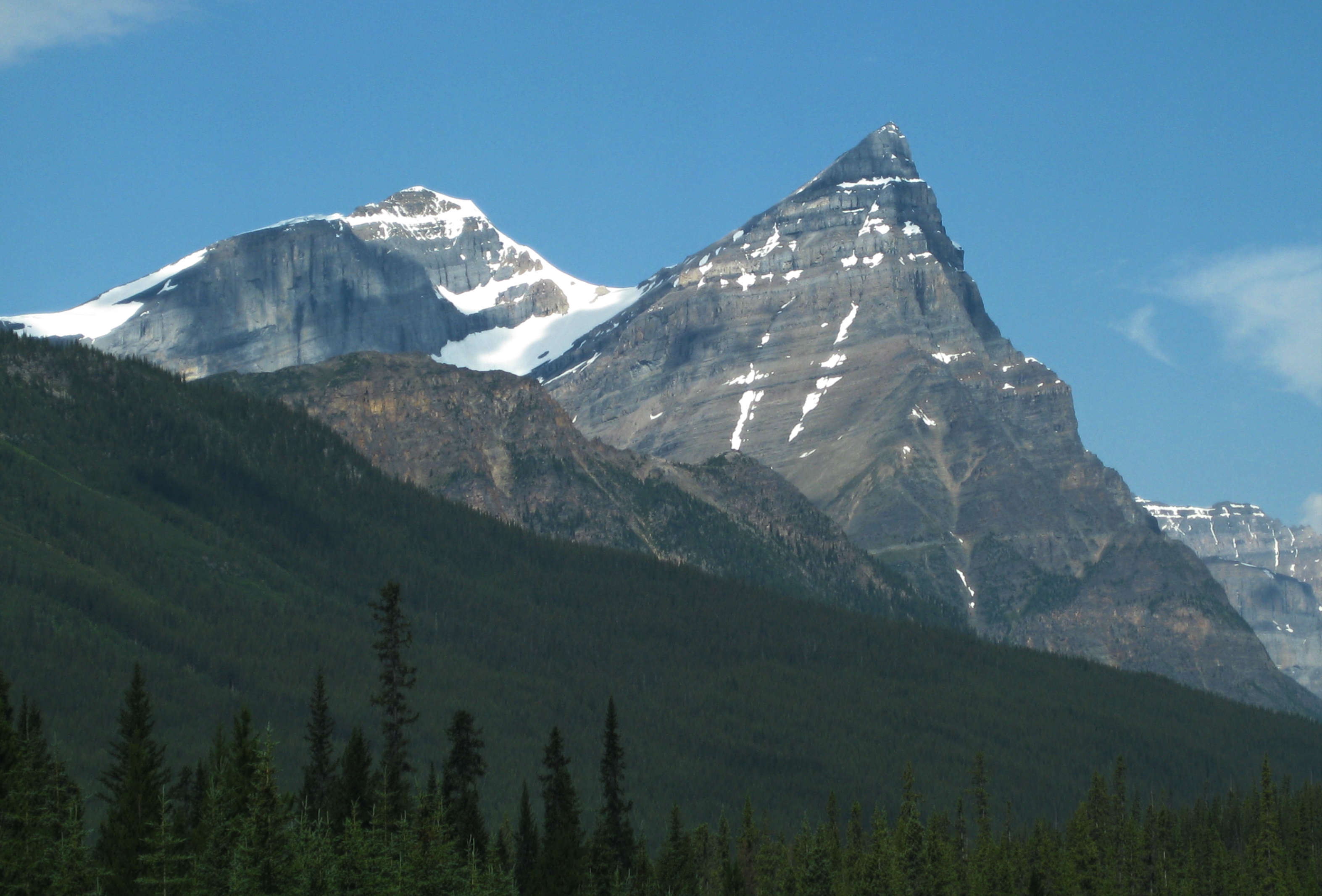 White Pyramid and Mt. Chephren, south aspects, seen from Icefields Parkway in Banff Park, Alberta Canada